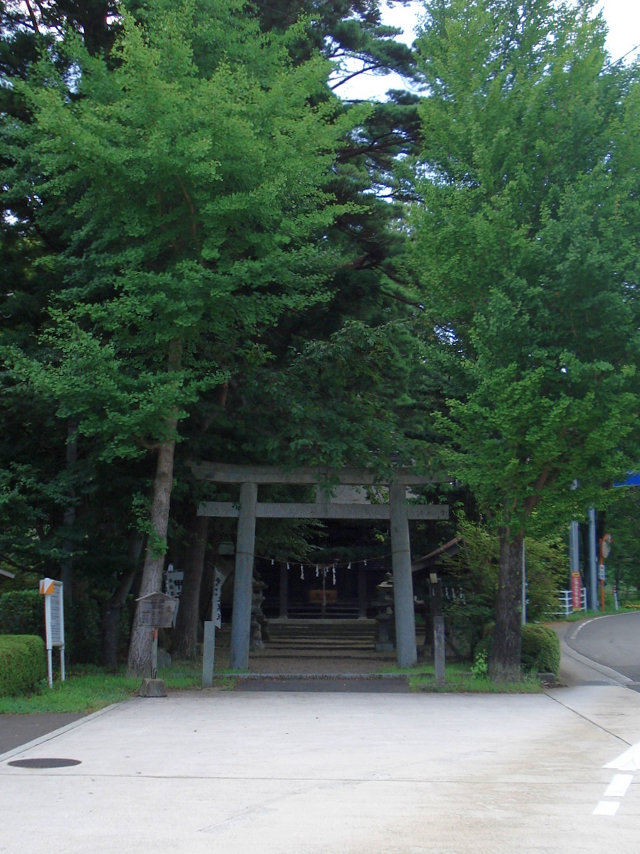 "Dake Onsen Shrine" at Nihonmatsu city, Fukushima prefecture, Japan